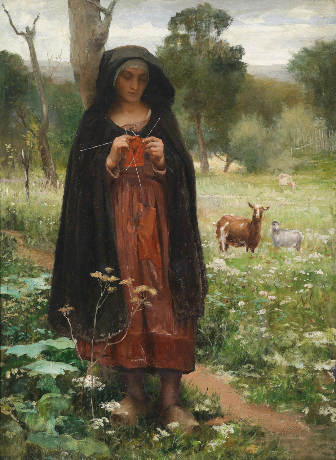 Painting by Georges Paul François Laurent Laugée (1853-1937) of a shepherdess in a dark red dress with a black cape, knitting in a field of wildflowers, with animals in the background. Size 124 x 92 cm. Private collection.